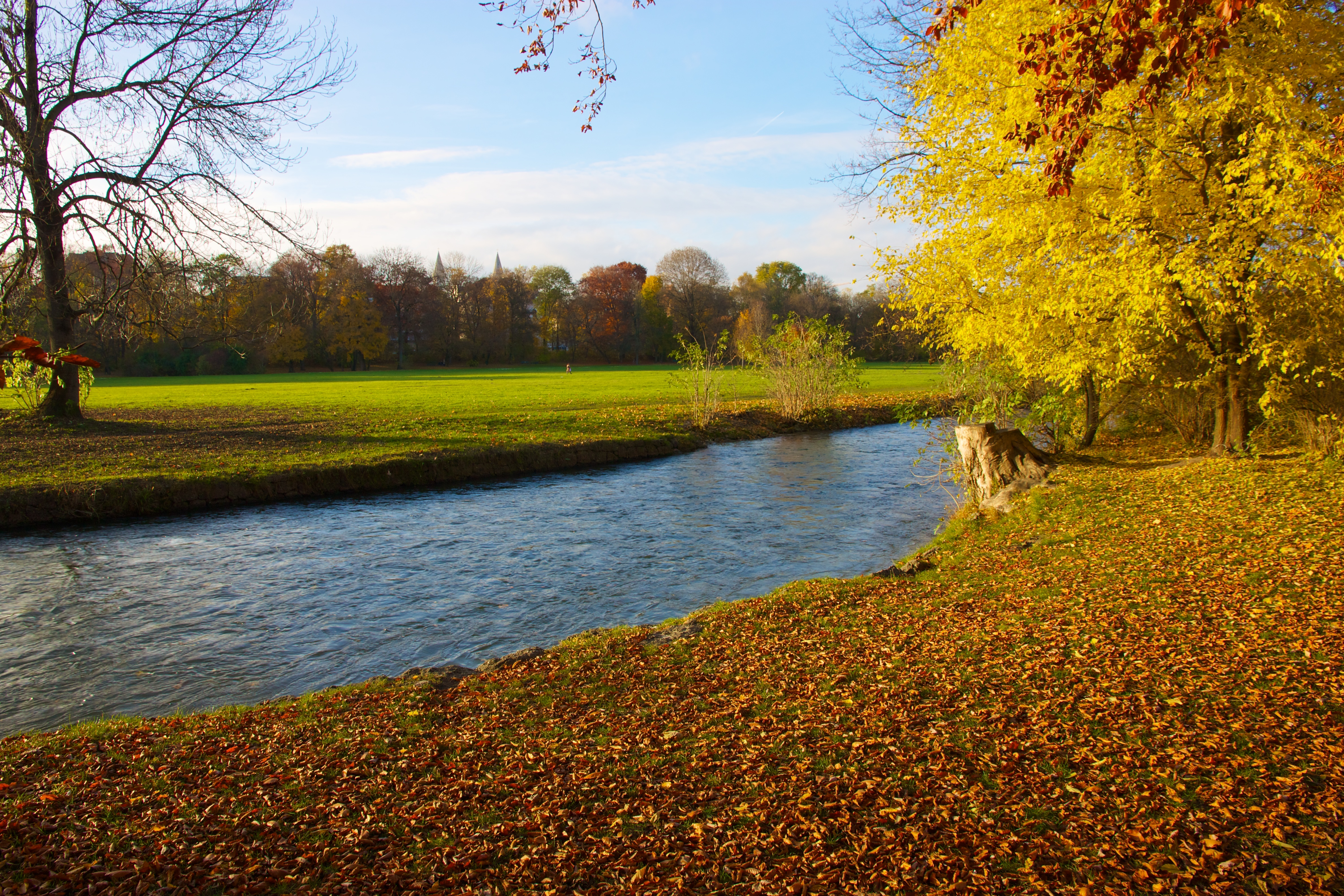 Fall foliage, English Garden, Munich